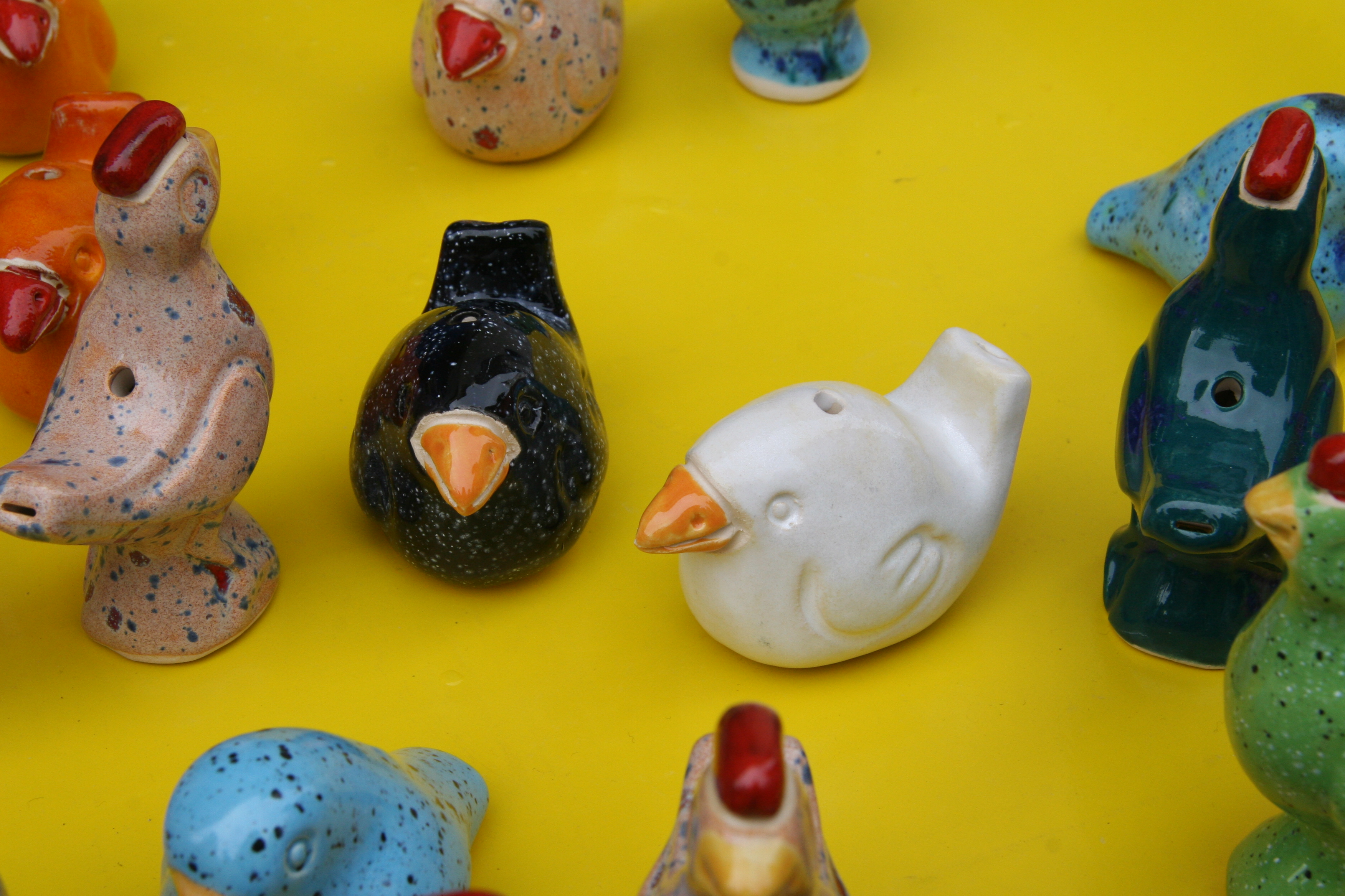 "Eemaischen", traditional market in Nospelt, Luxembourg.